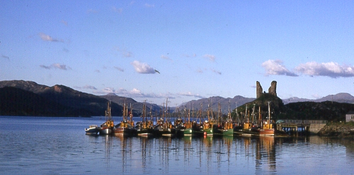 Caisteal Moil. Said to have been built by a Norse princess to collect tolls from ships passing by, the ruins of Caisteal Moil dominate Kyleakin on the Isle of Skye